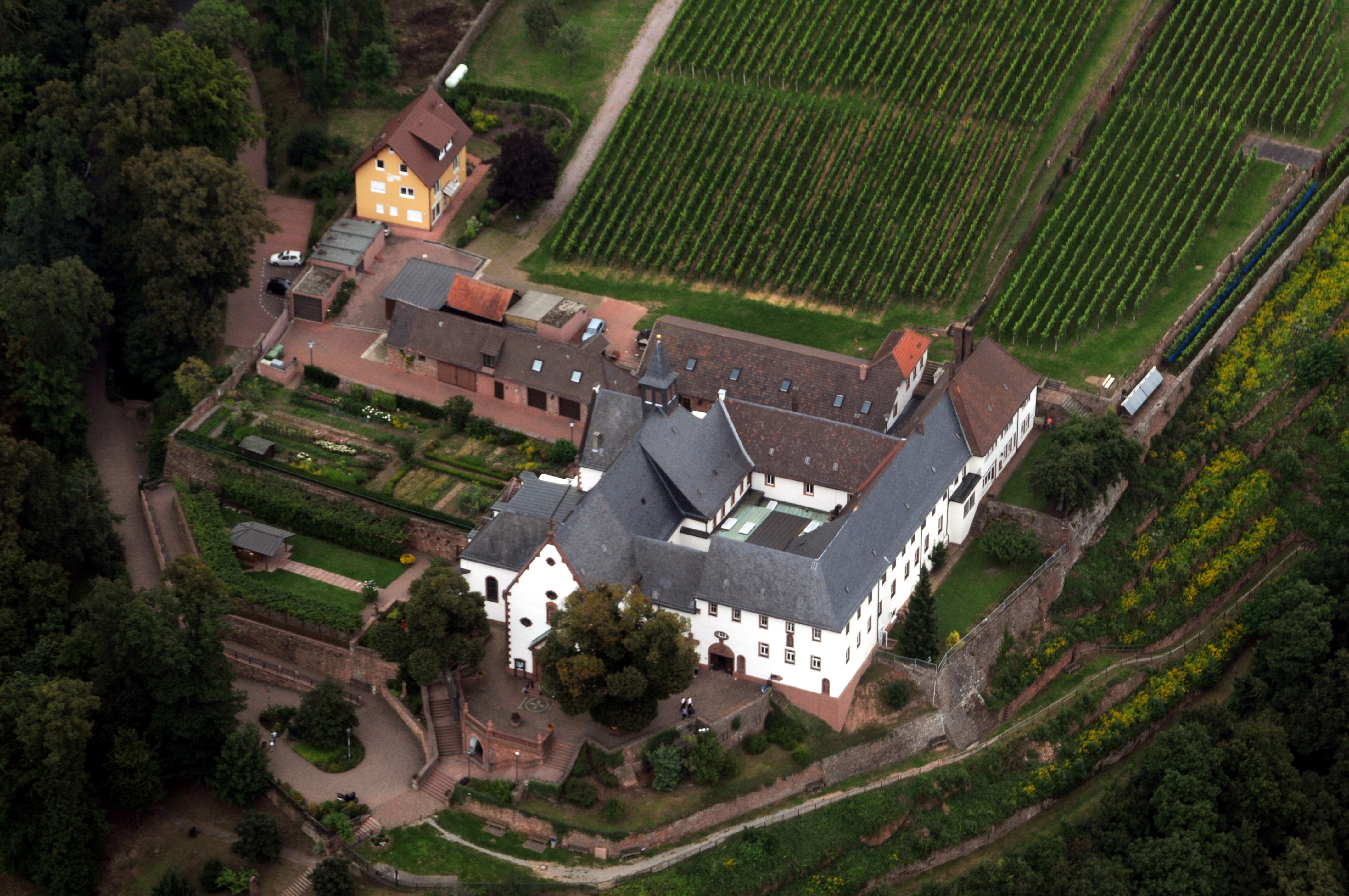 Monastery Engelbert, Grossheubach, Kleinheubach, Bavaria, Germany, aerial photograph